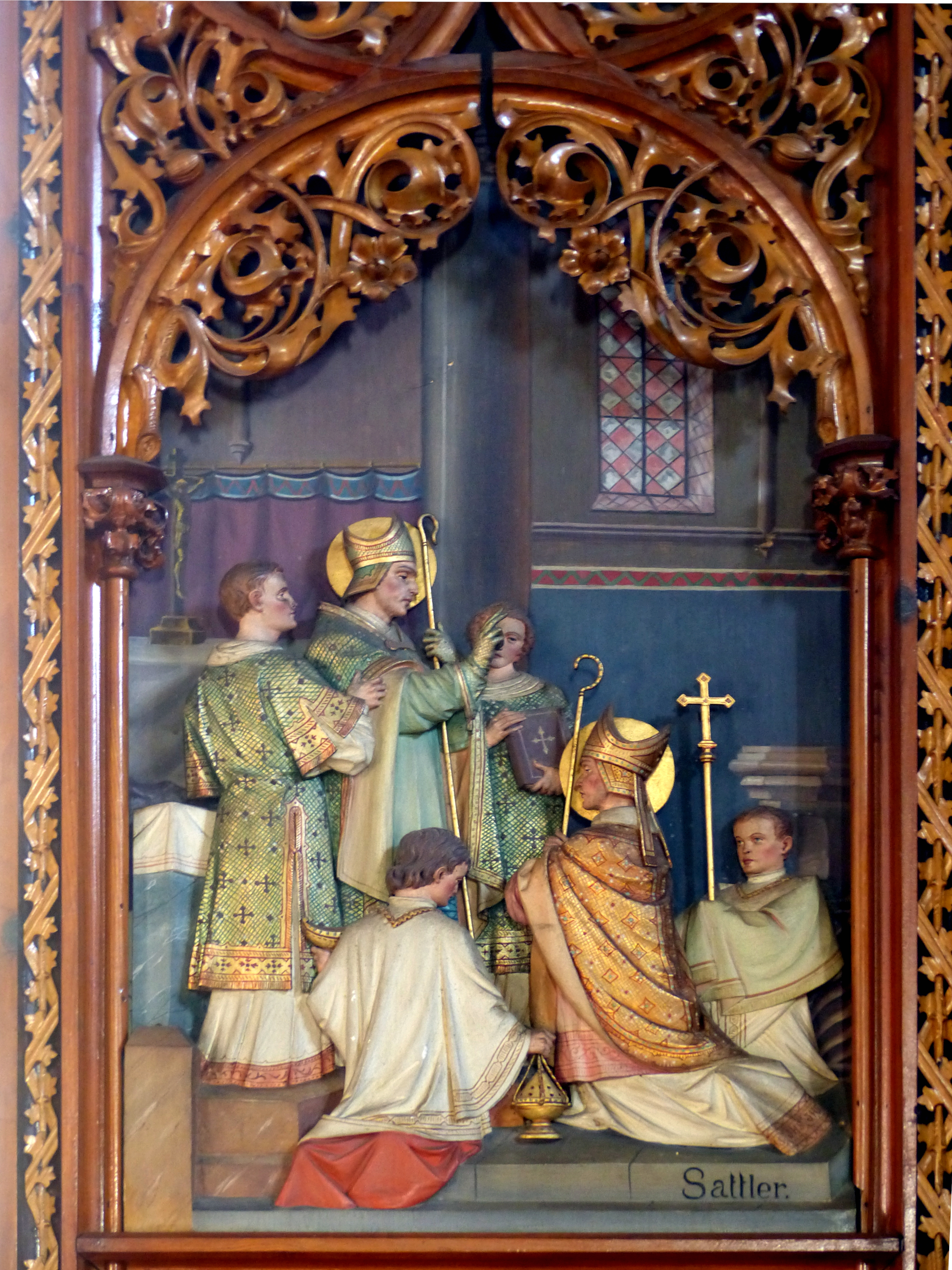 Sankt Gotthard ( Upper Austria ). Saint Gotthard parish church - High altar ( 1893 ) by Josef Kepplinger: Gotthard gets consecrated as bishop ( Relief von J.I.Sattler )